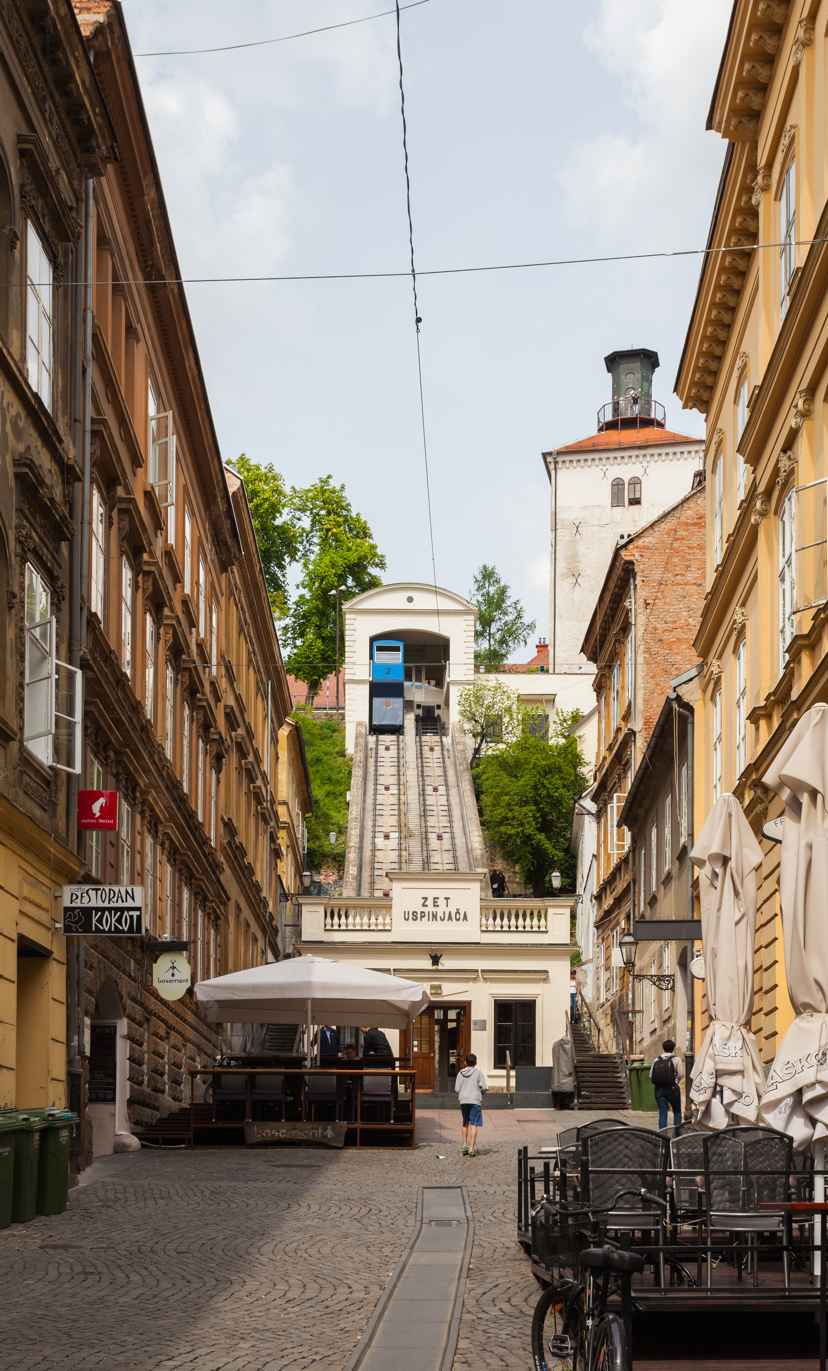 Zagreb Funicular, Croatia